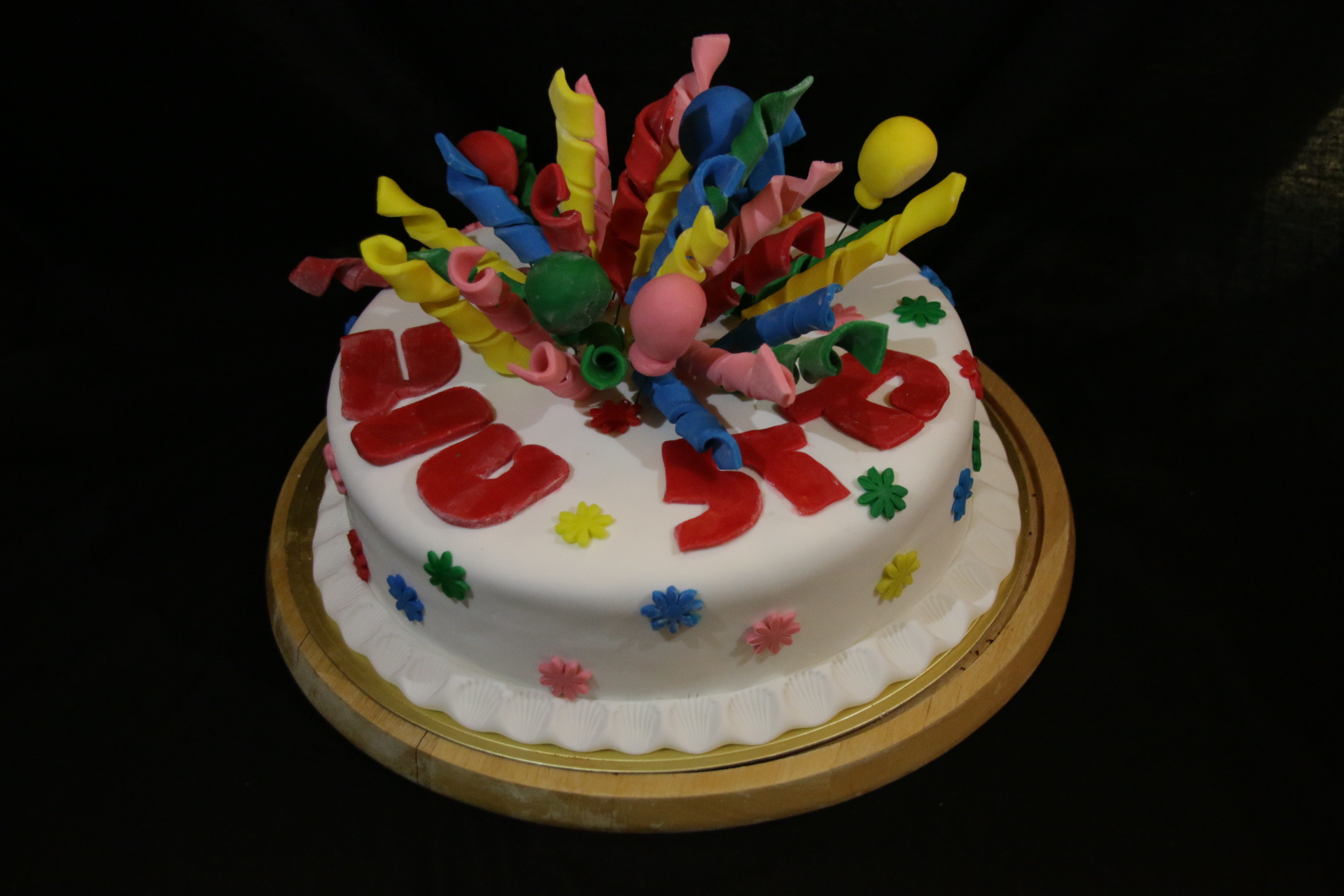 Events in Israel